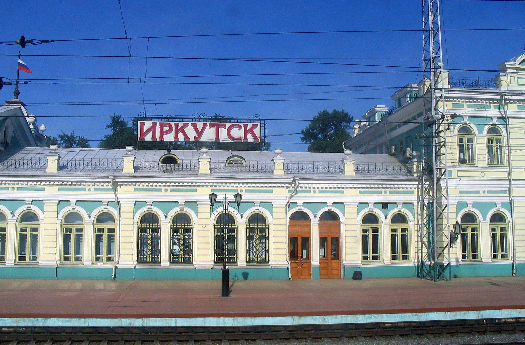 Picture of the Irkutsk train station on the trans-Siberian railway in Irkutsk, Russia. Taken by me 7/06, released into public domain